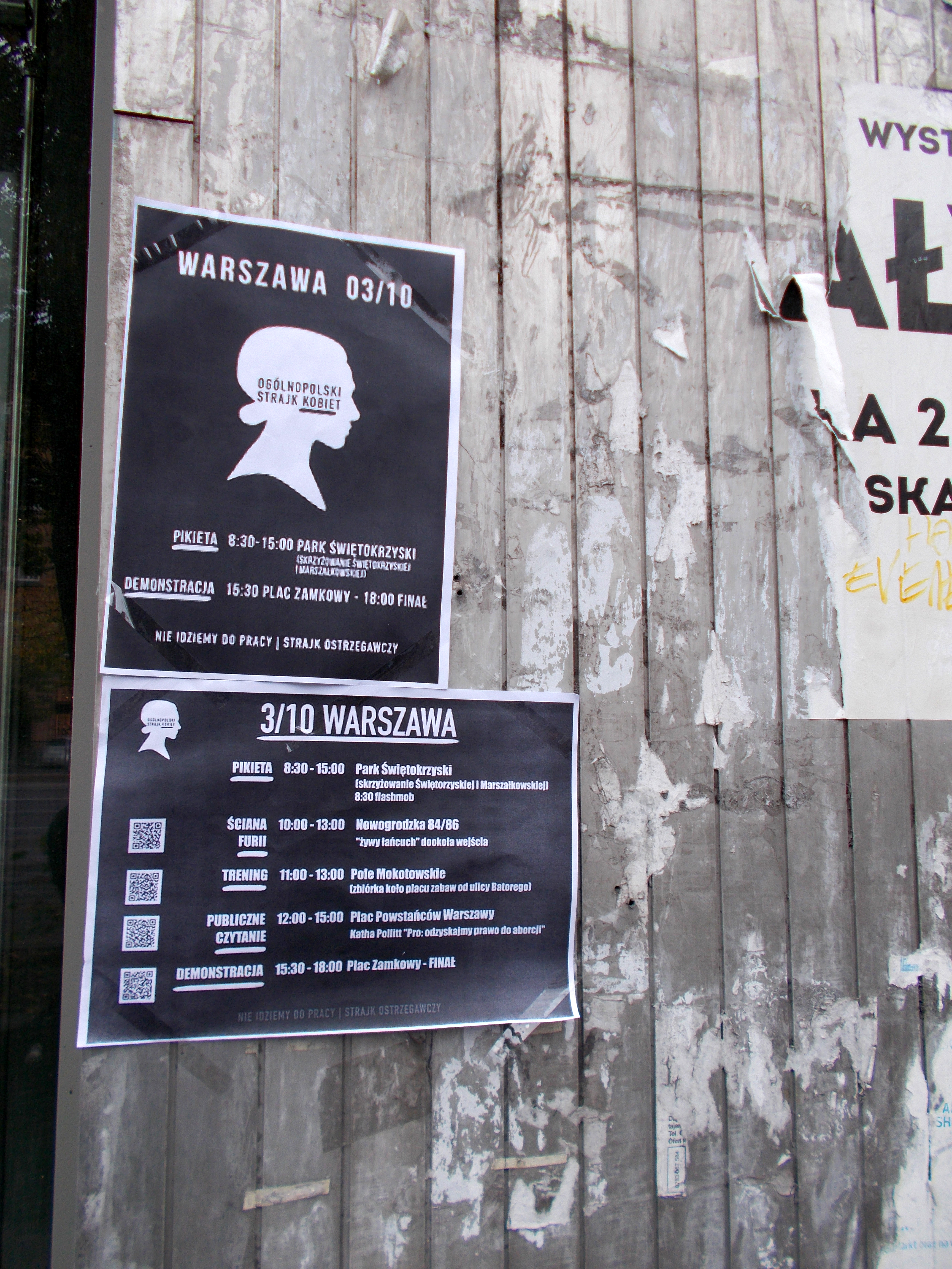 Posters of women's strike (Black Monday) in Poland (2016-10-03)